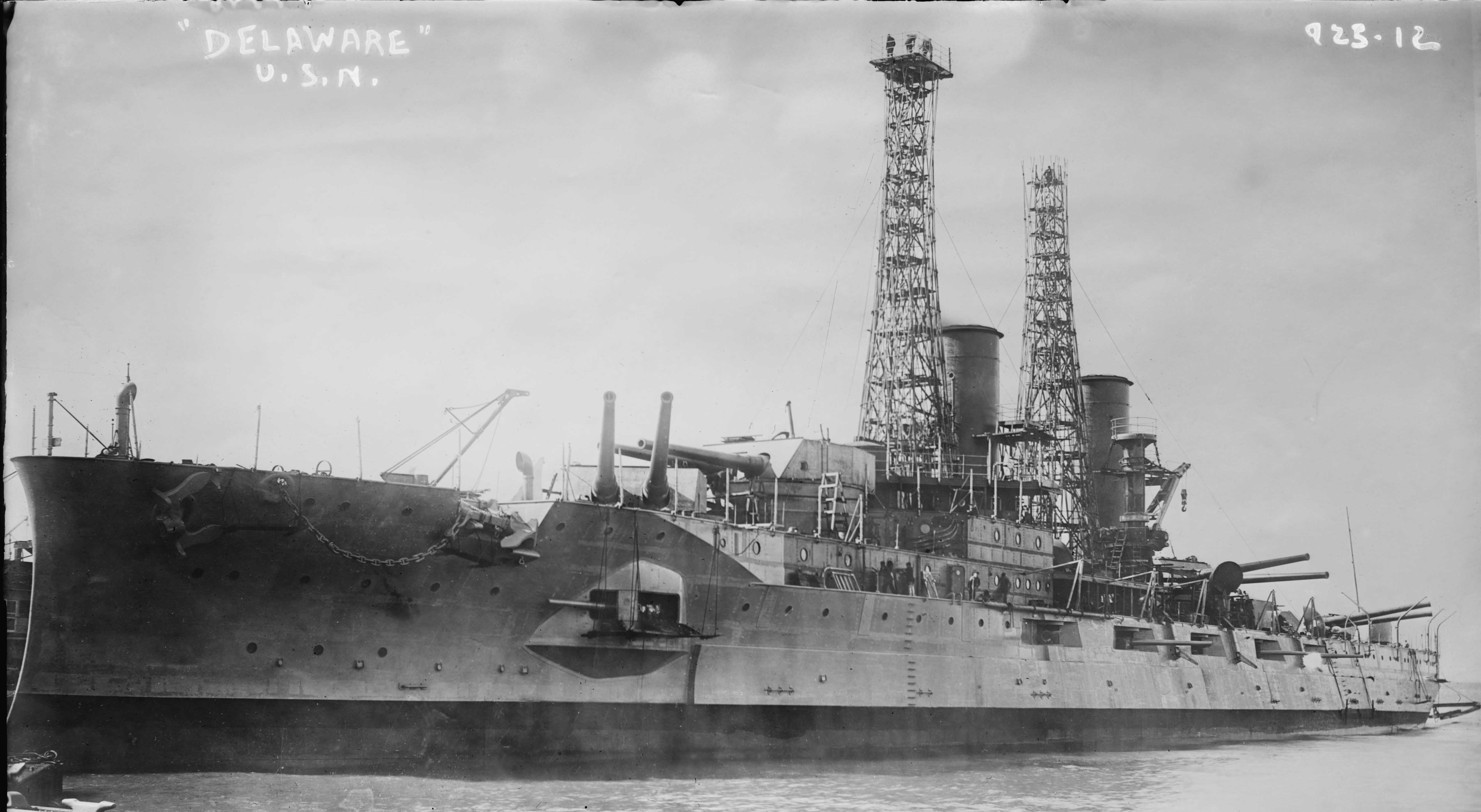 Delaware, U.S.N.